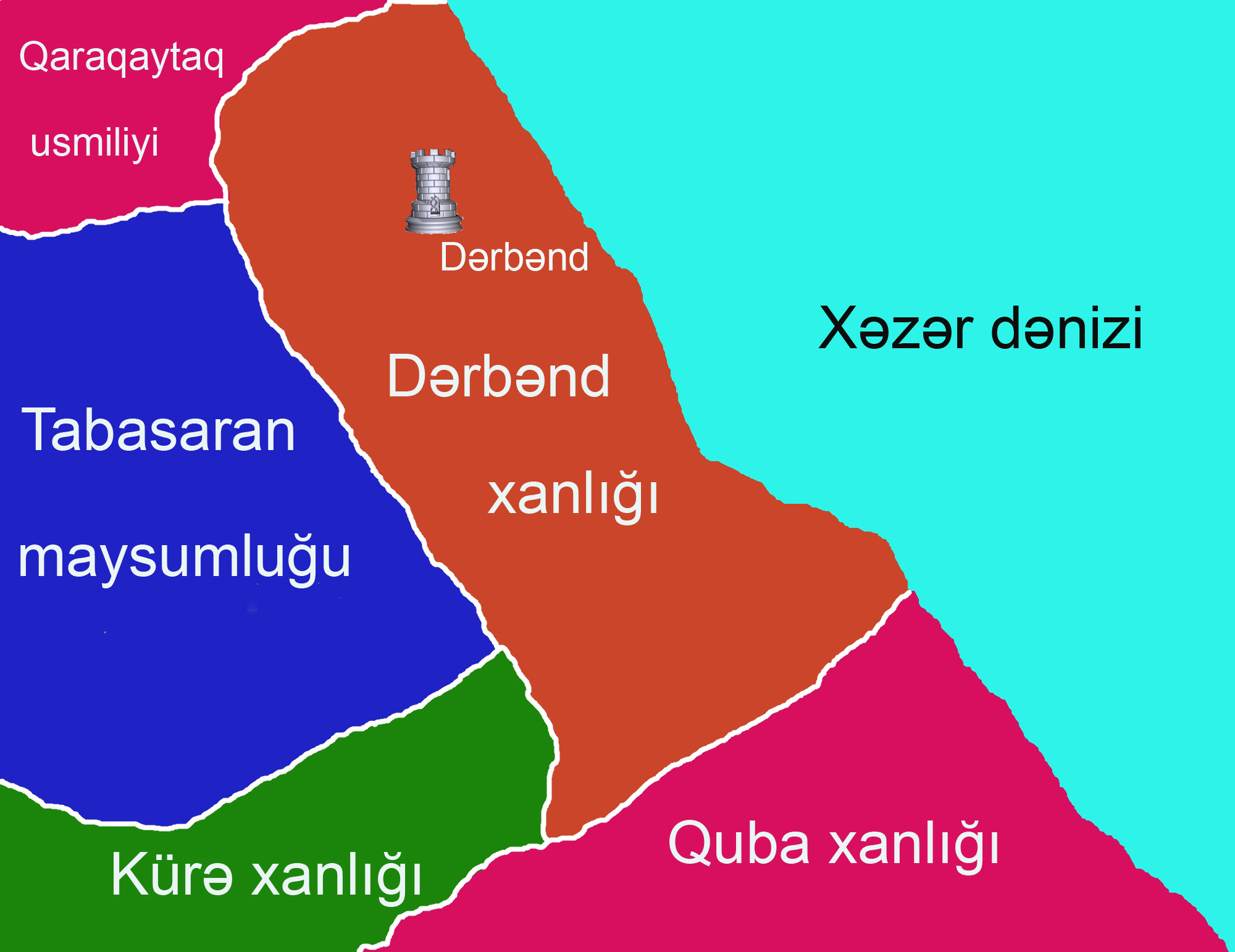 Derbend khanate. Territories of Northern and Southern Khanates (and Sultanates) of Azerbaijan in 18th-19th centuries Based on the original sources: 1."Frontier nomads of Iran: a political and social history of the Shahsevan" Author: Richard Tapper Cambridge University Press, 1997 ISBN 0 521 58336 5 hardback 2."Russian Azerbaijan, 1905-1920: The shaping of national identity in a muslim community" Author: Tadeusz Swietochowski Cambridge University Press, 1985 ISBN 0 521 26310 7 hardback ISBN 0 521 52245 5 paperback 3."Russia and Iran, 1780-1828" Author: Muriel Atkin University of Minnesota Press, 1980 ISBN 0 8166 0924 1